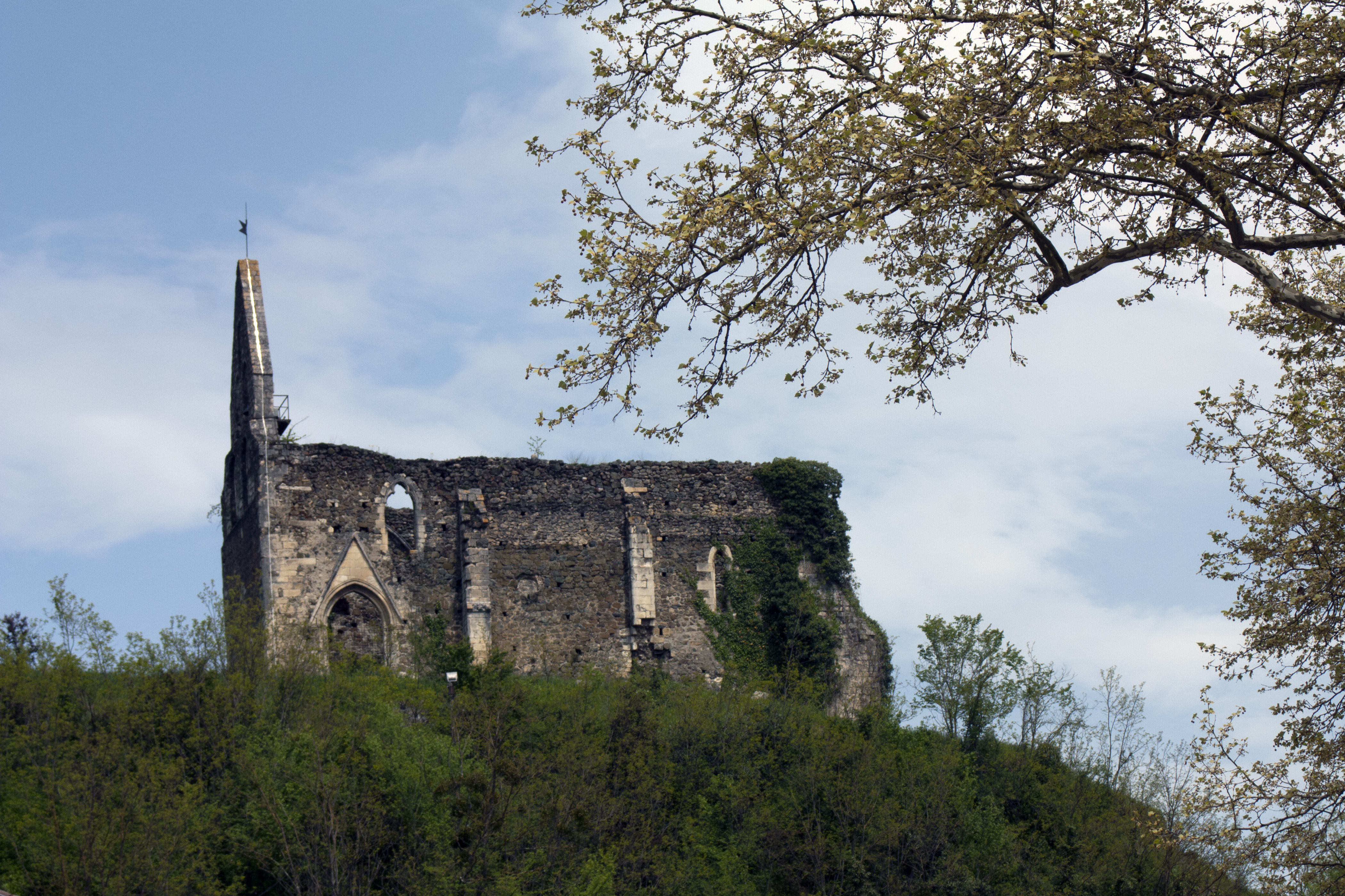 Ruins of the Church of Our Lady of Mercy, 14th century, destroyed in the same time as the castle of the Counts of Comminges which she was the chapel.